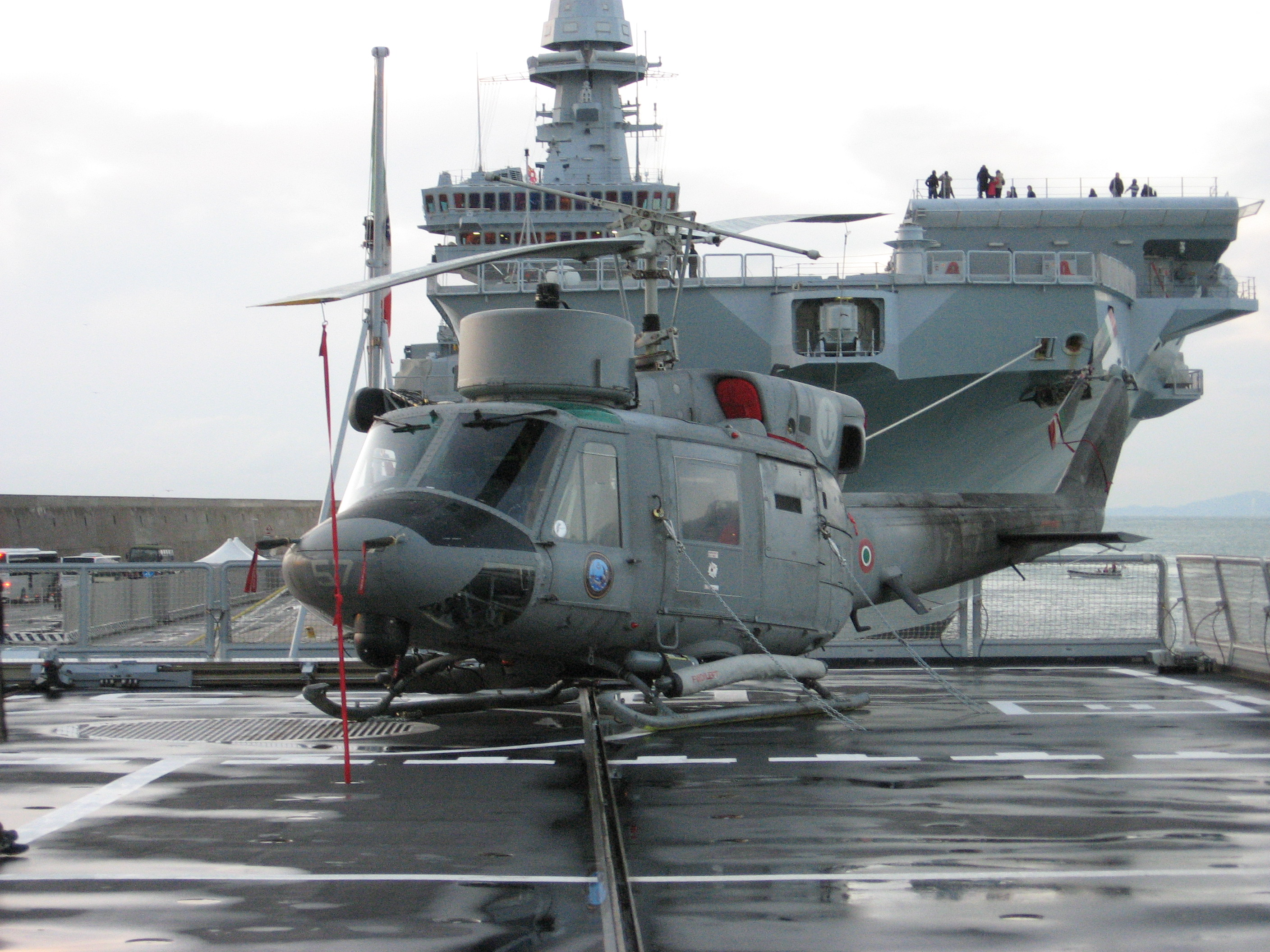 AB 212ASW Italian Navy on Caio Duilio destroyer. In the background, aircraft carrier Cavour.